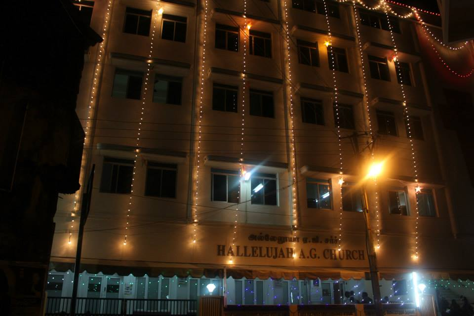 Hallelujah AG Church